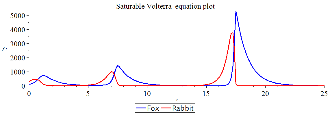 Satuable Volterra Eq time plot